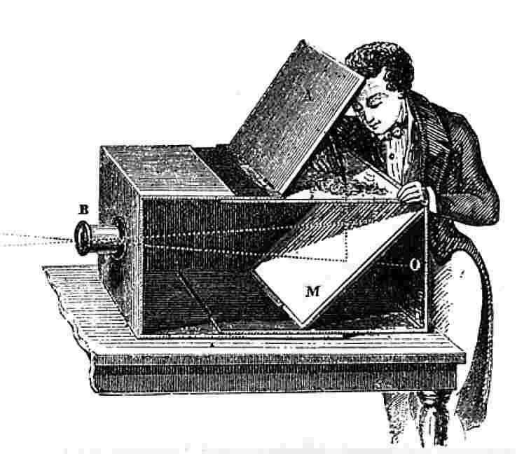 An artist drawing from life with an 19th century camera obscura, labeled: B (lens), M (mirror), O (line of light if mirror not in way). The artist used thin tracing paper to capture the outlines, transfered those to canvas, board or paper & finished the drawing.